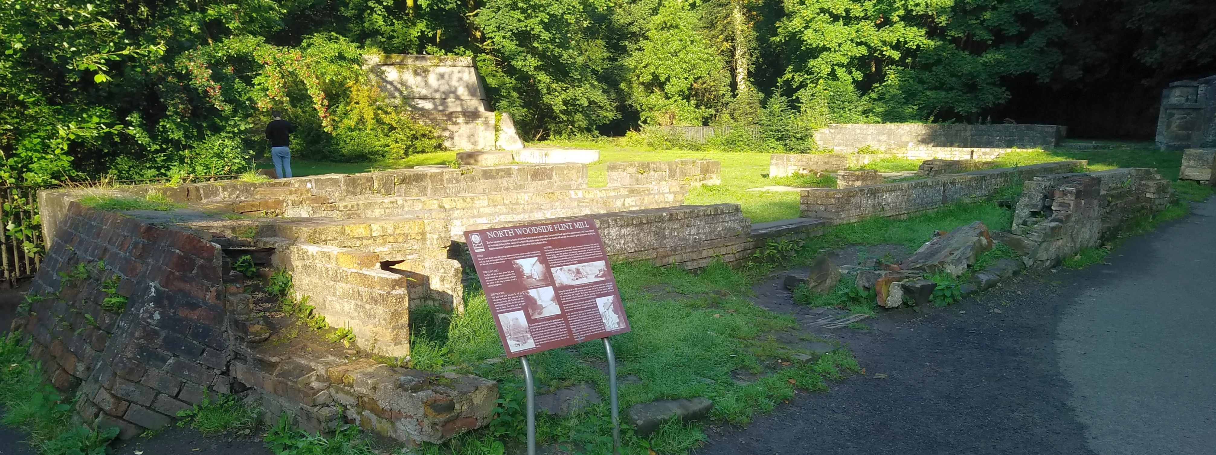 North woodside flint mill (Kelvingrove Park, Glasgow)